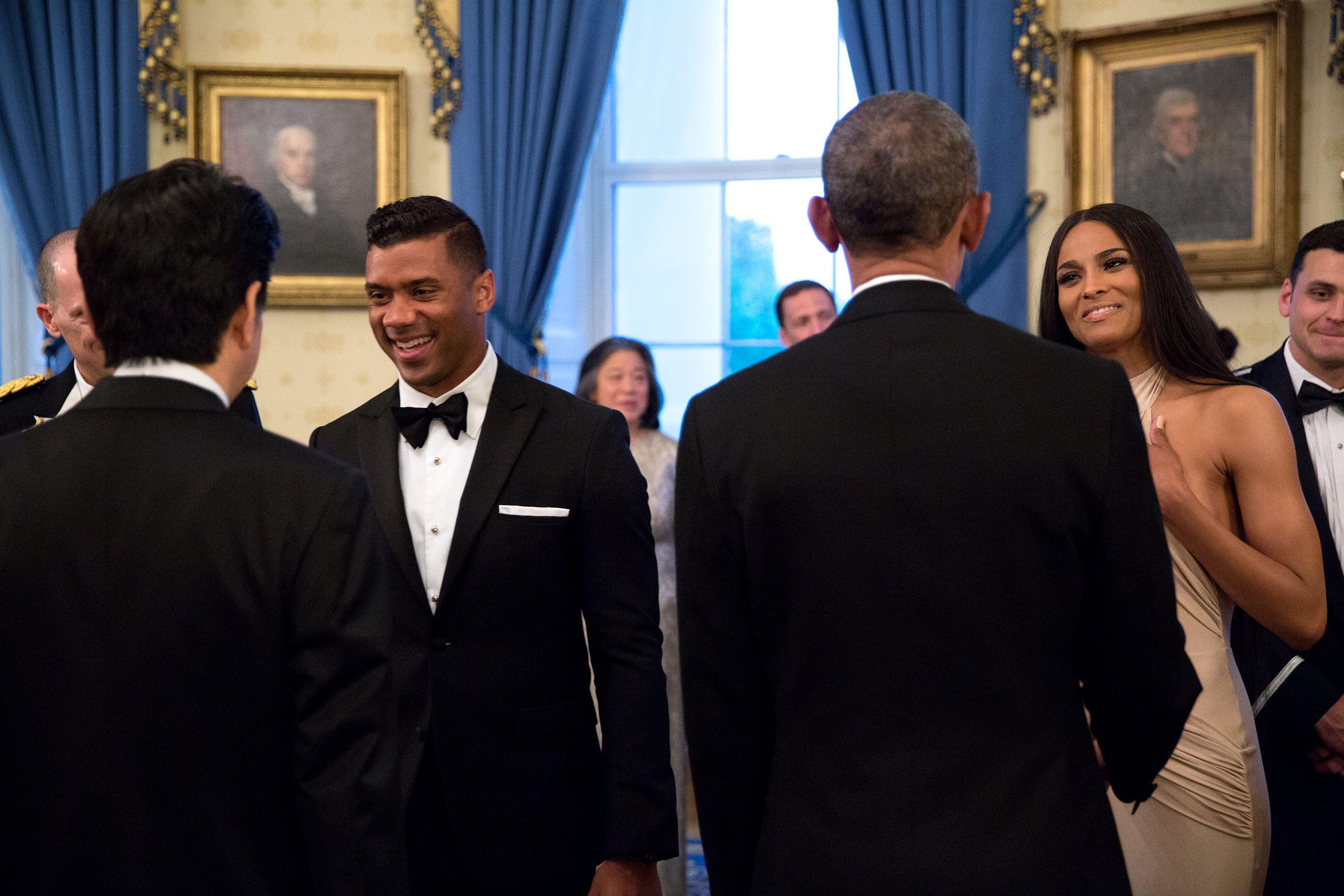 The President and Prime Minister greet guests prior to the State Dinner.